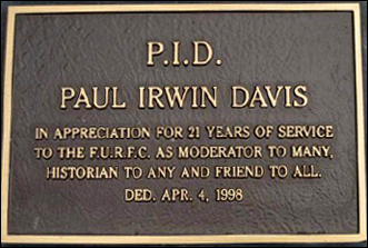 Plaque honoring the late Dr. Paul I. Davis, long-time supporter and moderator of the Fairfield University Rugby Club.